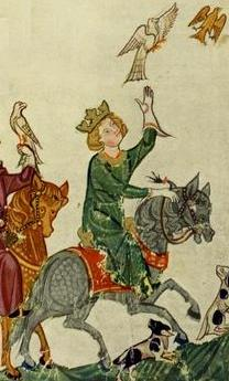 Portrait of Conradin from the Codex Manesse